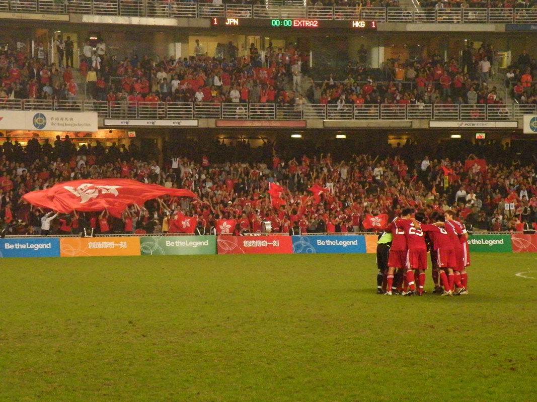 2009 East Asian Games Football Final Match - Hong Kong, China vs Japan at Hong Kong Stadium on 2009.12.12.